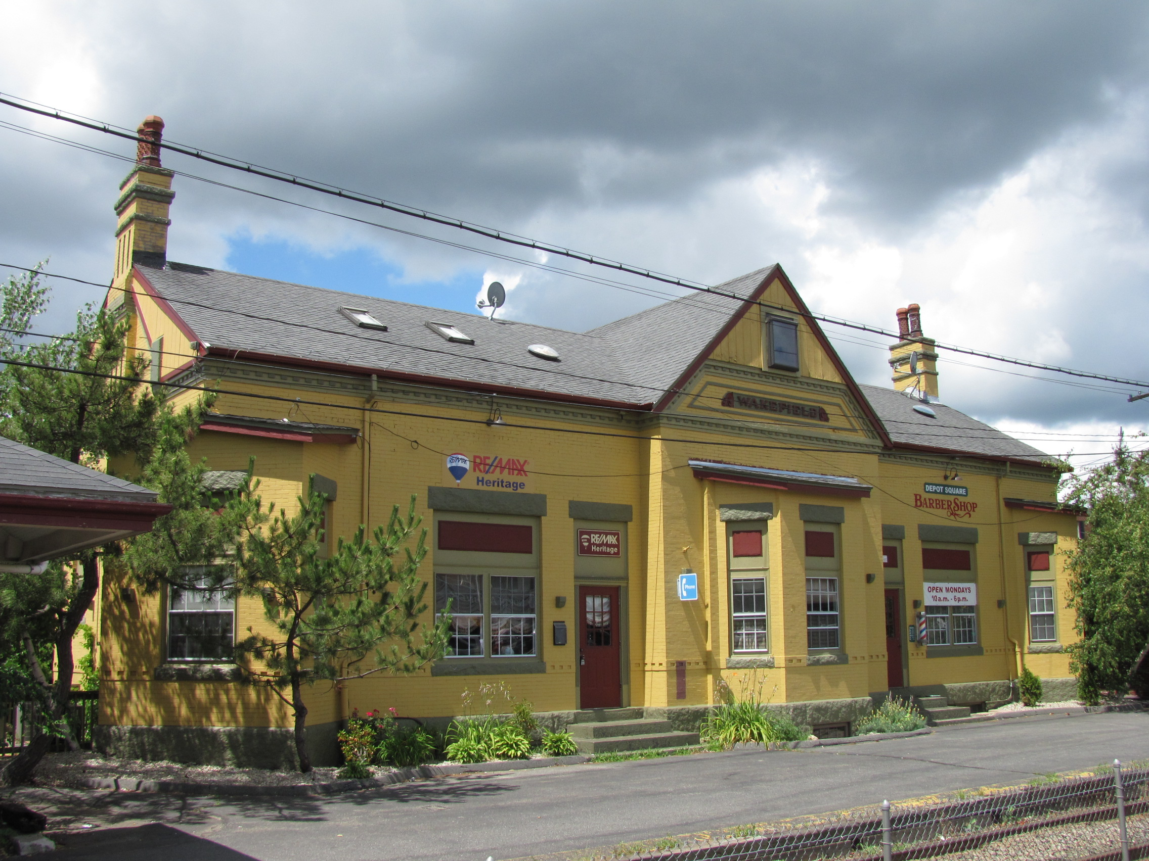 Upper Depot, Wakefield Massachusetts